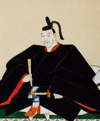 池田宗政（第8代岡山城主）、Ikeda Munemasa(the 8th Okayama castellan)